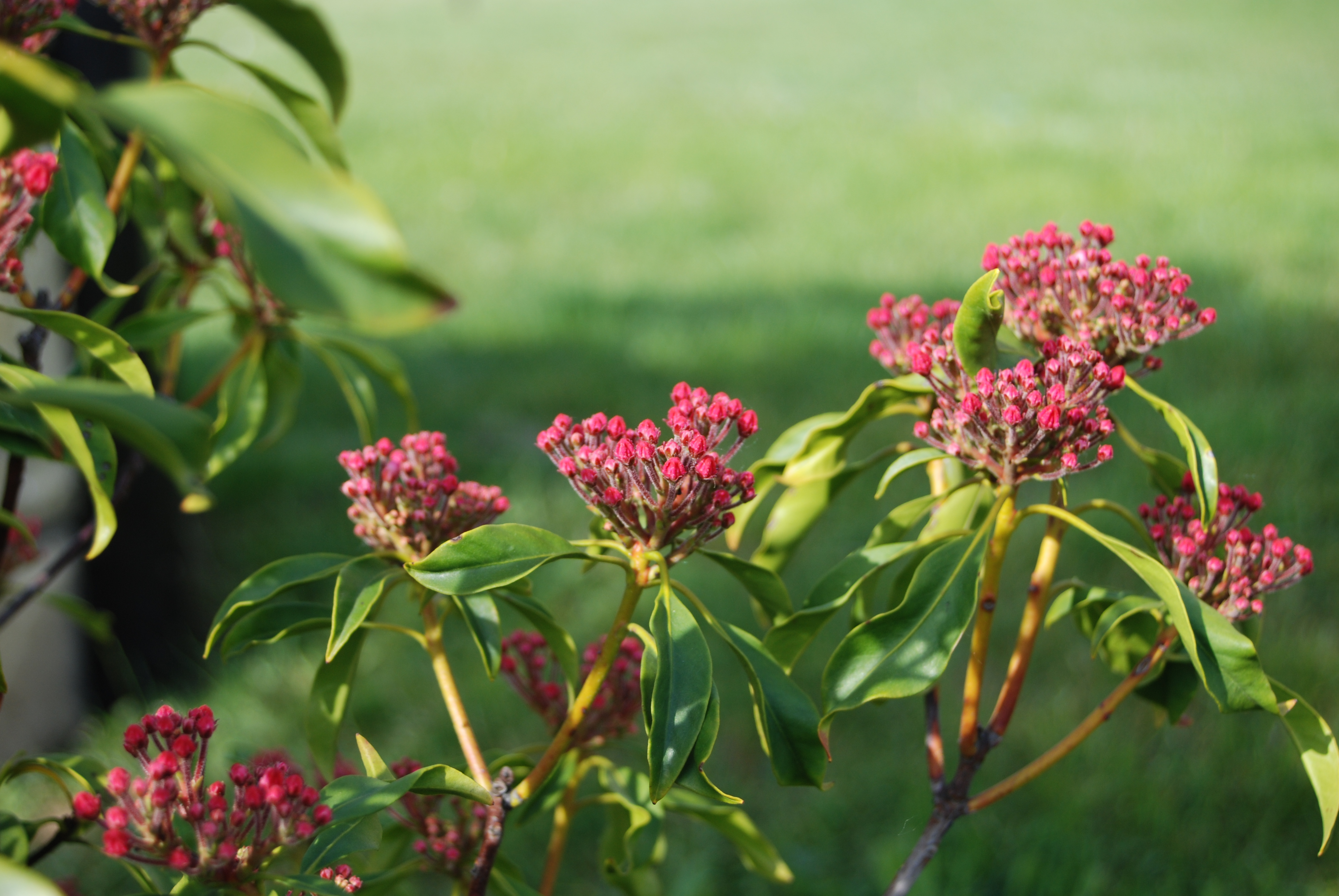 Kalmia - burgeon